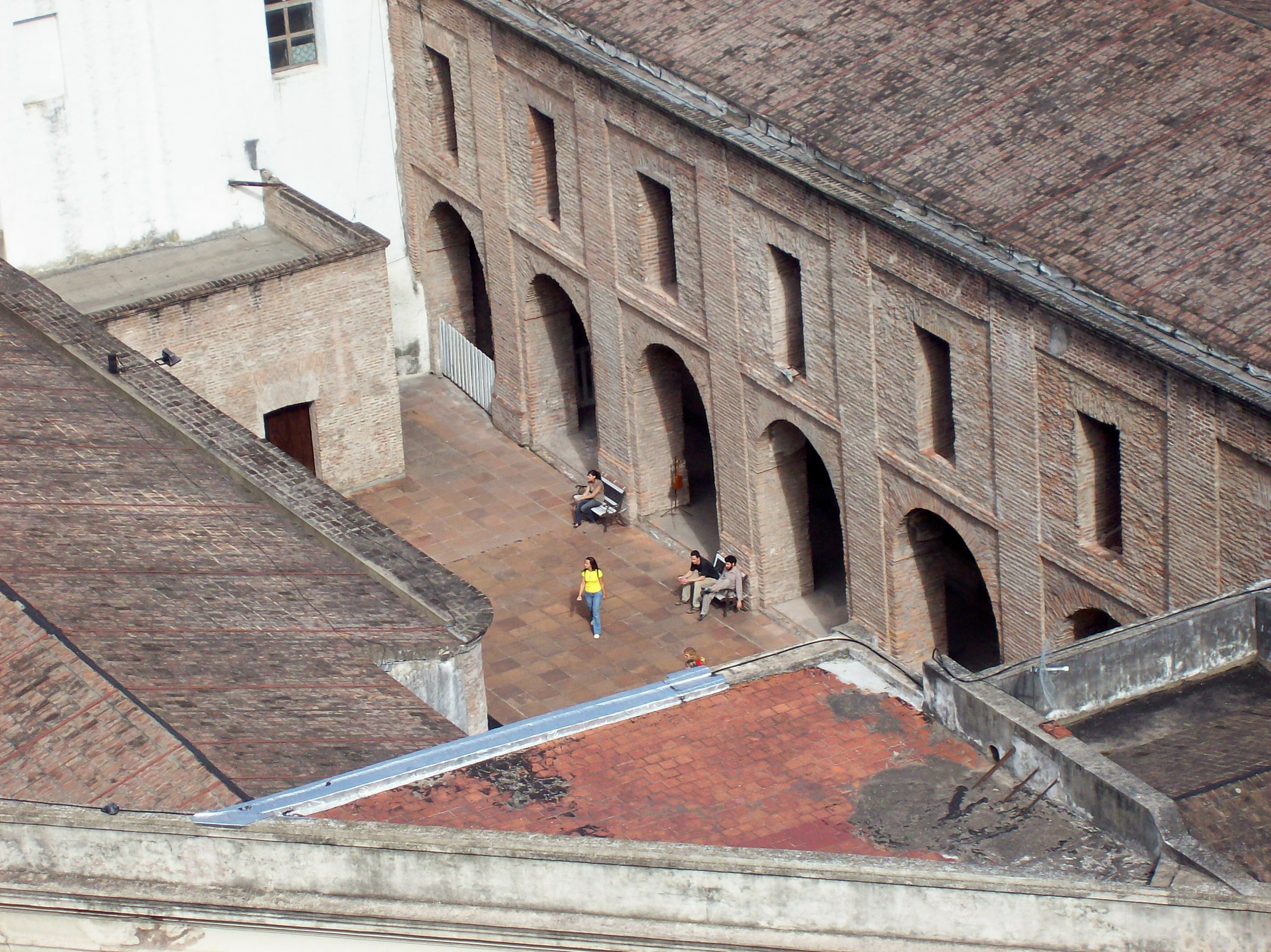 Manzana de las Luces, in "Barrio de Monserrat", Buenos Aires, near Plaza de Mayo. NW corner (Perú y Julio Argentino Roca) Aerial photography of its inside patio